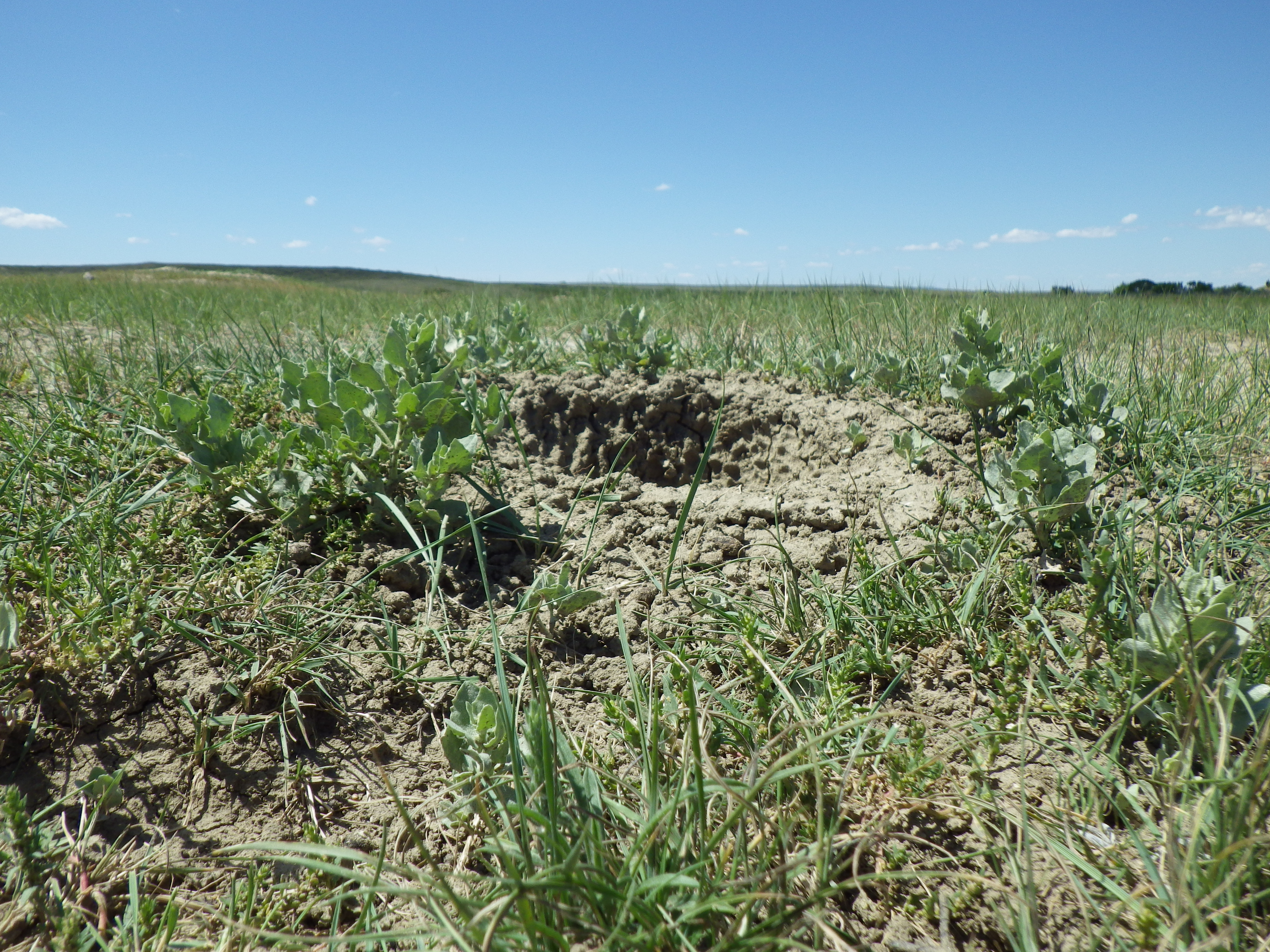 The silvery white somewhat-large leaves are most conspicuous as well as distinctive of this herbaceous species.